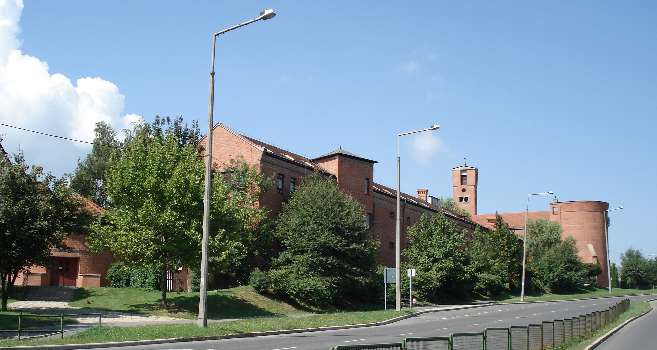 Jesuit School and Church in Avas housing estate, Miskolc, Hungary